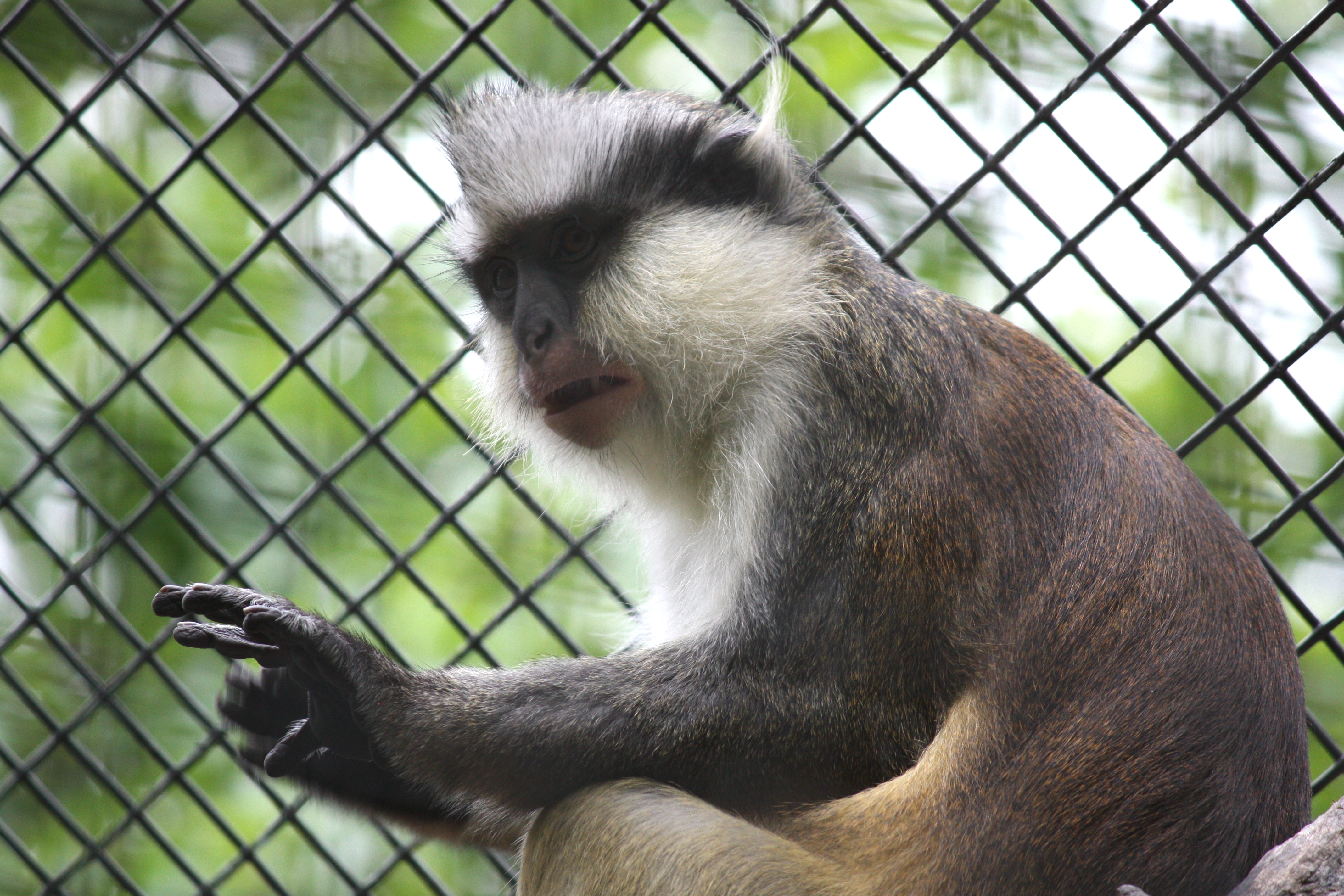 Crowned Guenon Cercopithecus pogonias at Cincinnati Zoo